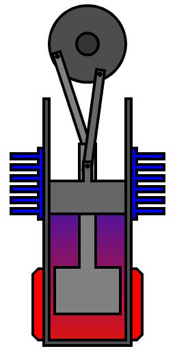 By Richard Wheeler (Zephyris)) 2007. Single frame of Image:Stirling Animation.gif.